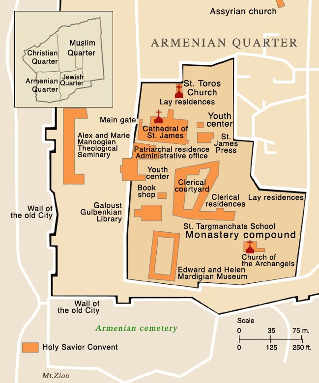 Map of the Armenian Quarter of Jerusalem Old City, showing St. James' Cathedral and the patriarchal compound.